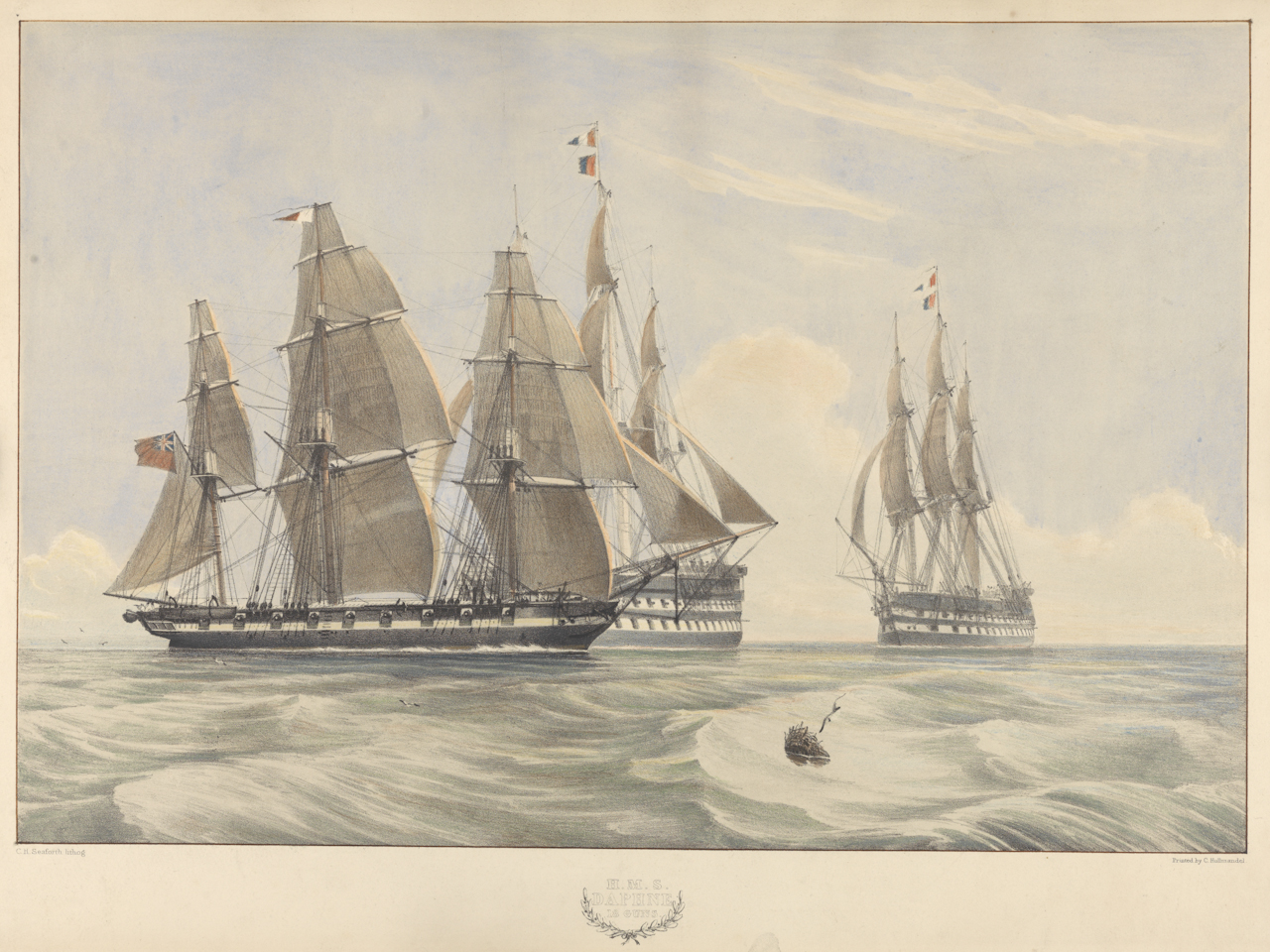 H.M.S. Daphne, 18 guns Inscribed: "H.M.S. Daphne 18 guns" (with a wreath round the lettering). Two other vessels are depicted in the image. Hand-coloured. H.M.S. Daphne, 18 guns